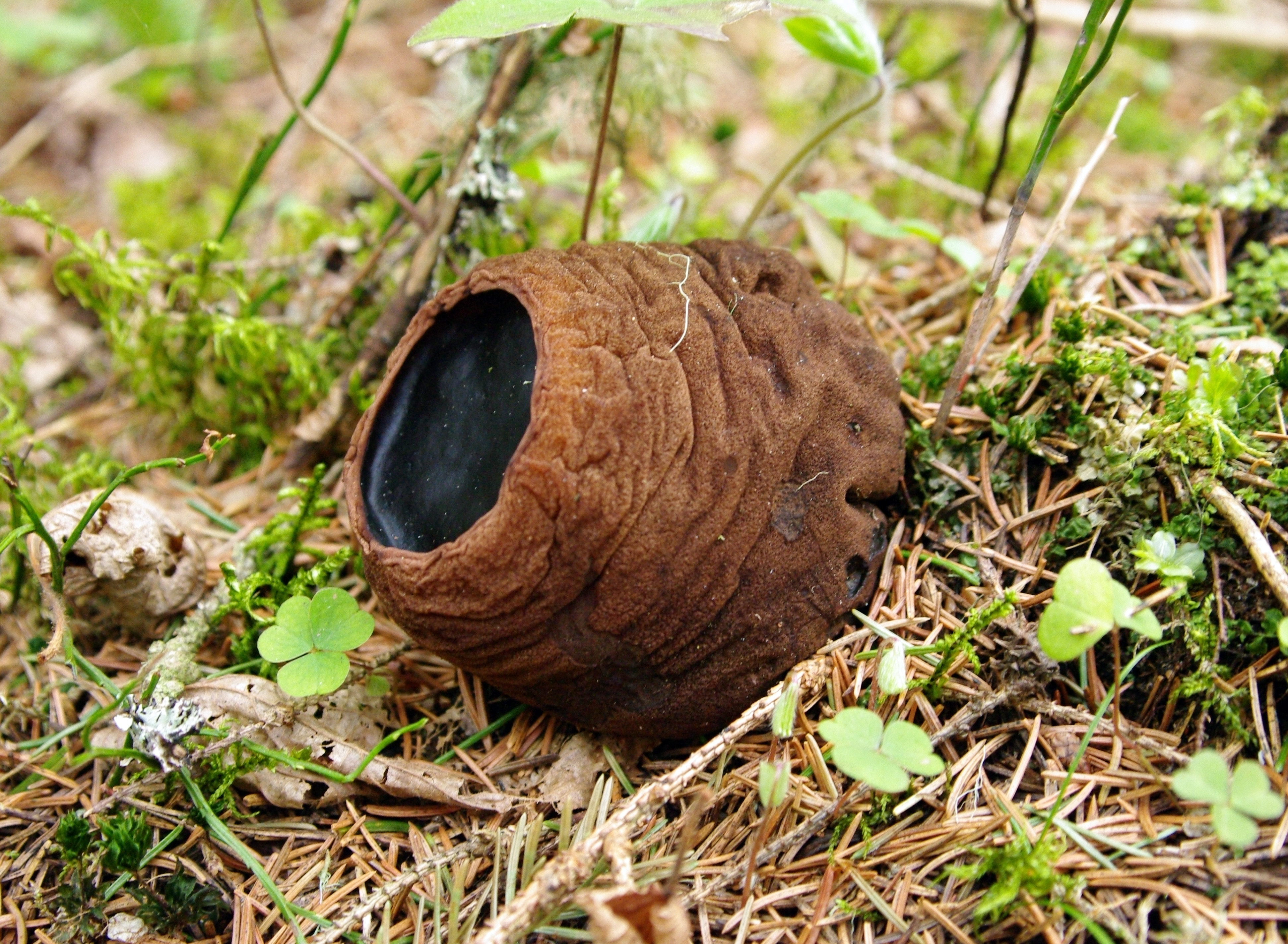 Sarcosoma globosus in Estonia.